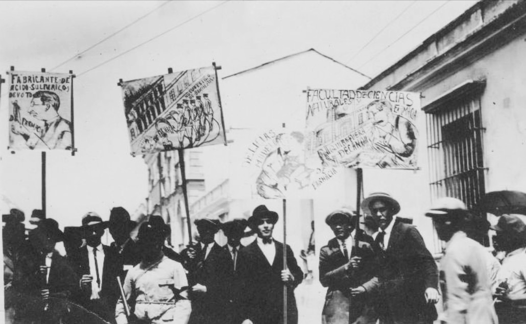 Huelga de Dolores de 1922.